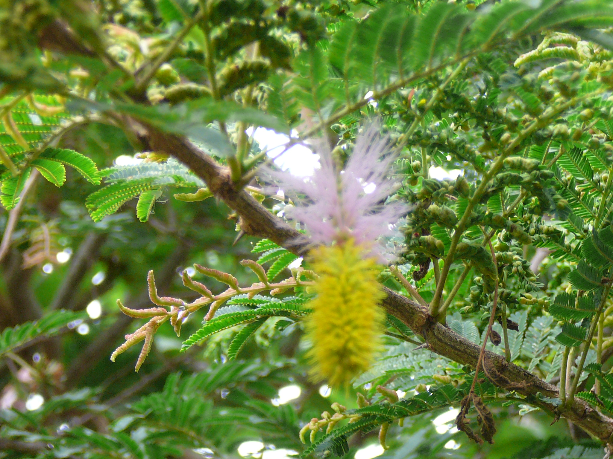 Bell-flowered Mimosa